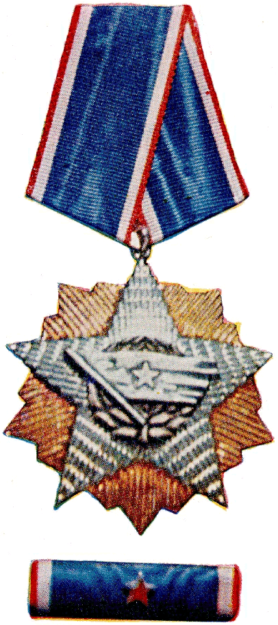 Order of the Yugoslavian flag with golden star